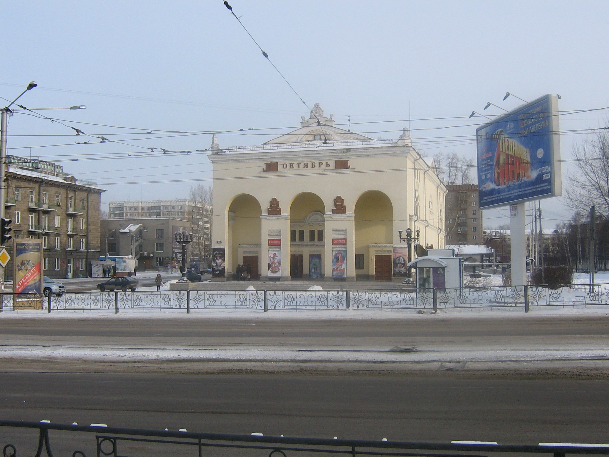 Movie theater "October", Novokuznetsk